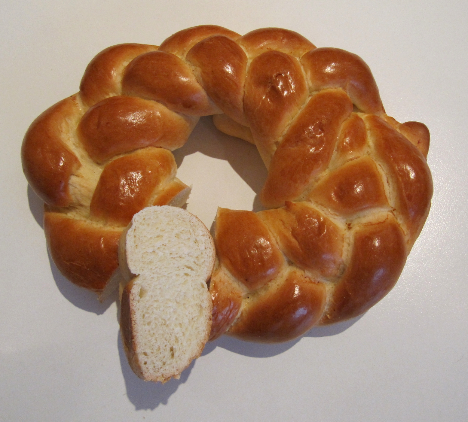 German_Kringel_Hamburg_style_2